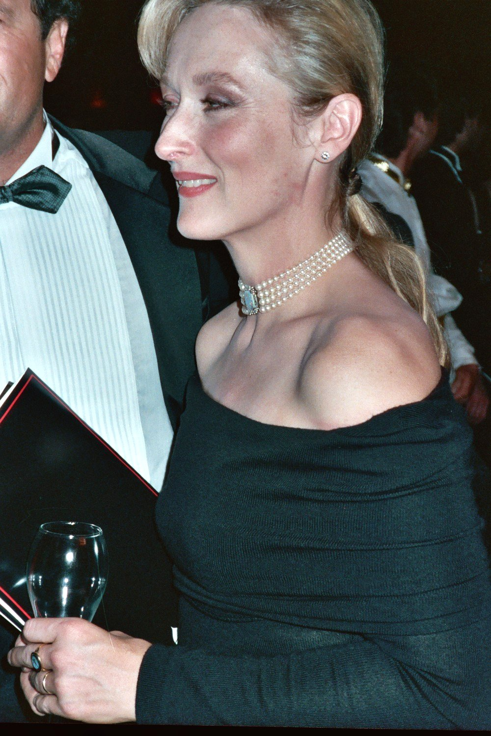 Meryl Streep at the Governor's Ball following the telecast of the 61st Annual Academy Awards, 1989. NOTE: Permission granted to copy, publish, broadcast or post any of my photos, but please credit "photo by Alan Light" if you can. Thanks. Scanned from the original 35MM film negative.